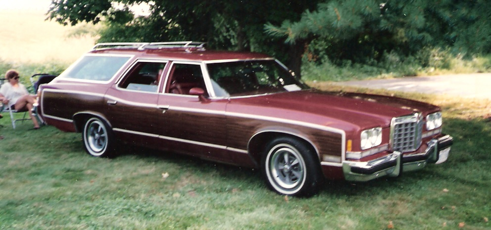 1974 Pontiac Grand Safari station wagon I photographed in Holyoke, Massachusetts.